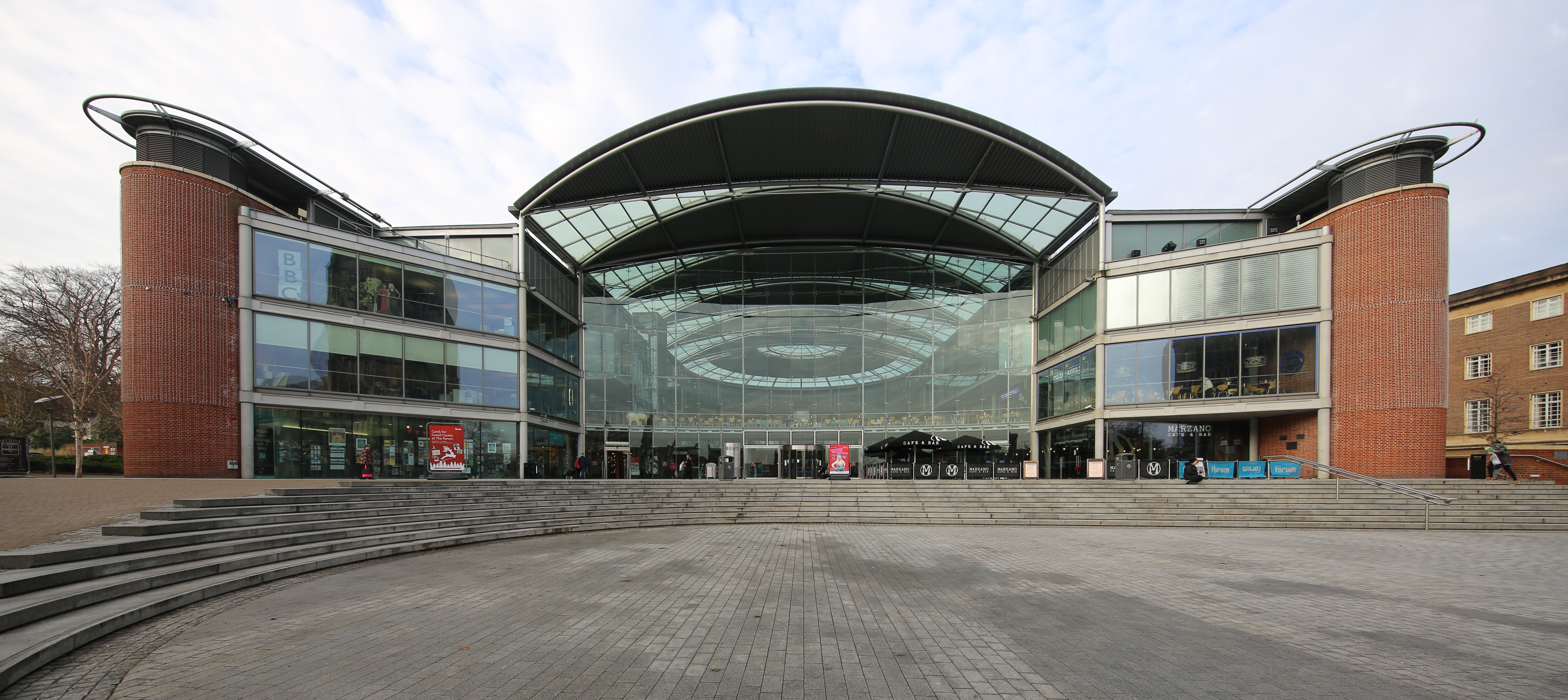 Photo of the the forum in Norwich from the front